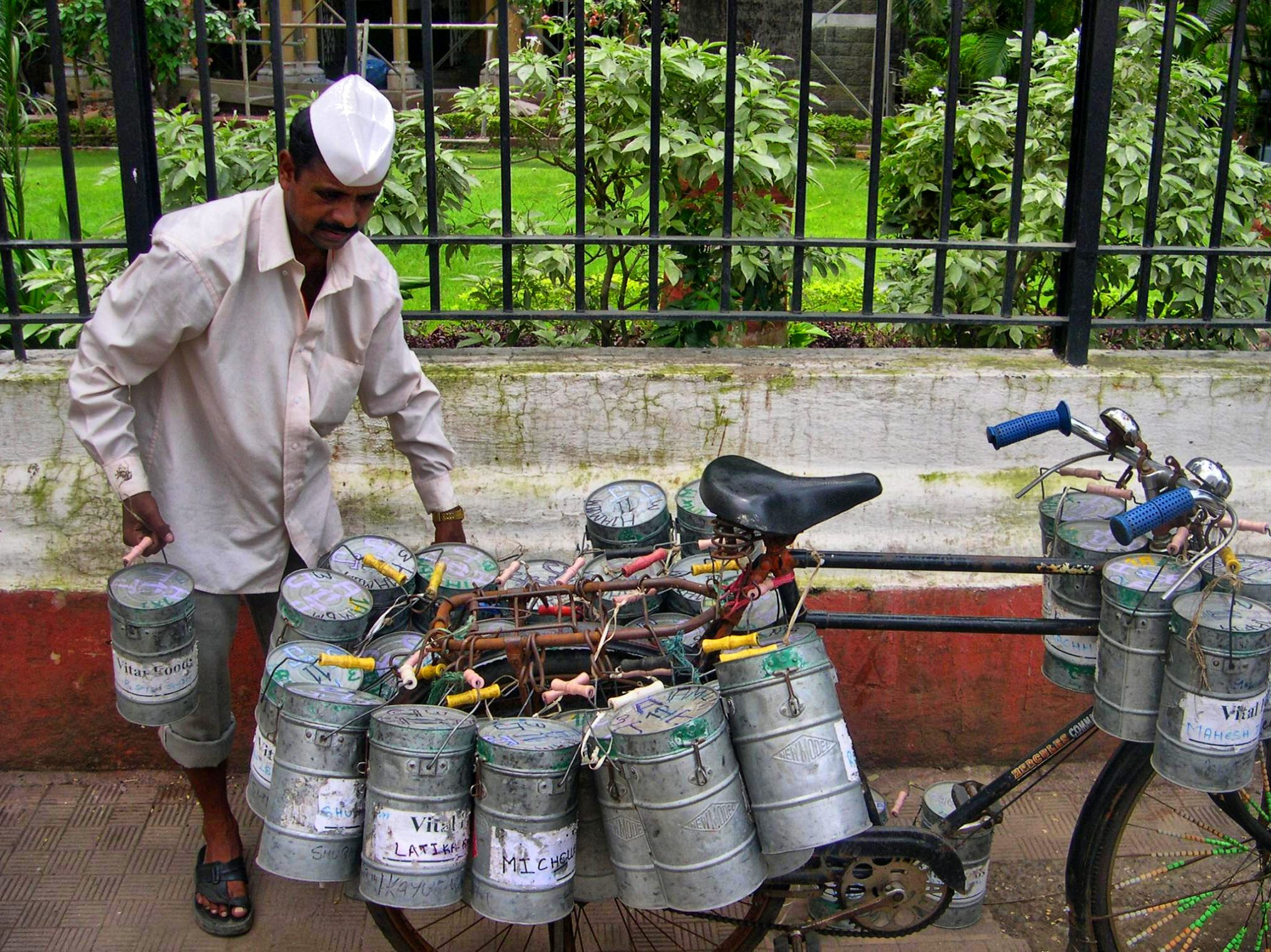 A charitable Trust started in 1890, The NMTBSA or commonly known as The Bombay Dabawalla has achieved 6 Sigma. They collect the Lunch Tiffin from home and deliver at the work place in a record time. Approximately 4,00,000 transactions are done per day with a work force of approximately 5000 employees.. The Error rate is 1 in 16 million transactions. (6 Sigma performance requires 99.999999 % efficiency) The charge ? Rs 300/- per month ($6 per month) This rate is standard for any distance or weight. Their latest marketing strategy is Marketing pamphlets in the “Dabba” By the way NMTBSA stands for Nutan Mumbai Tiffin Box Supplier’s Association.